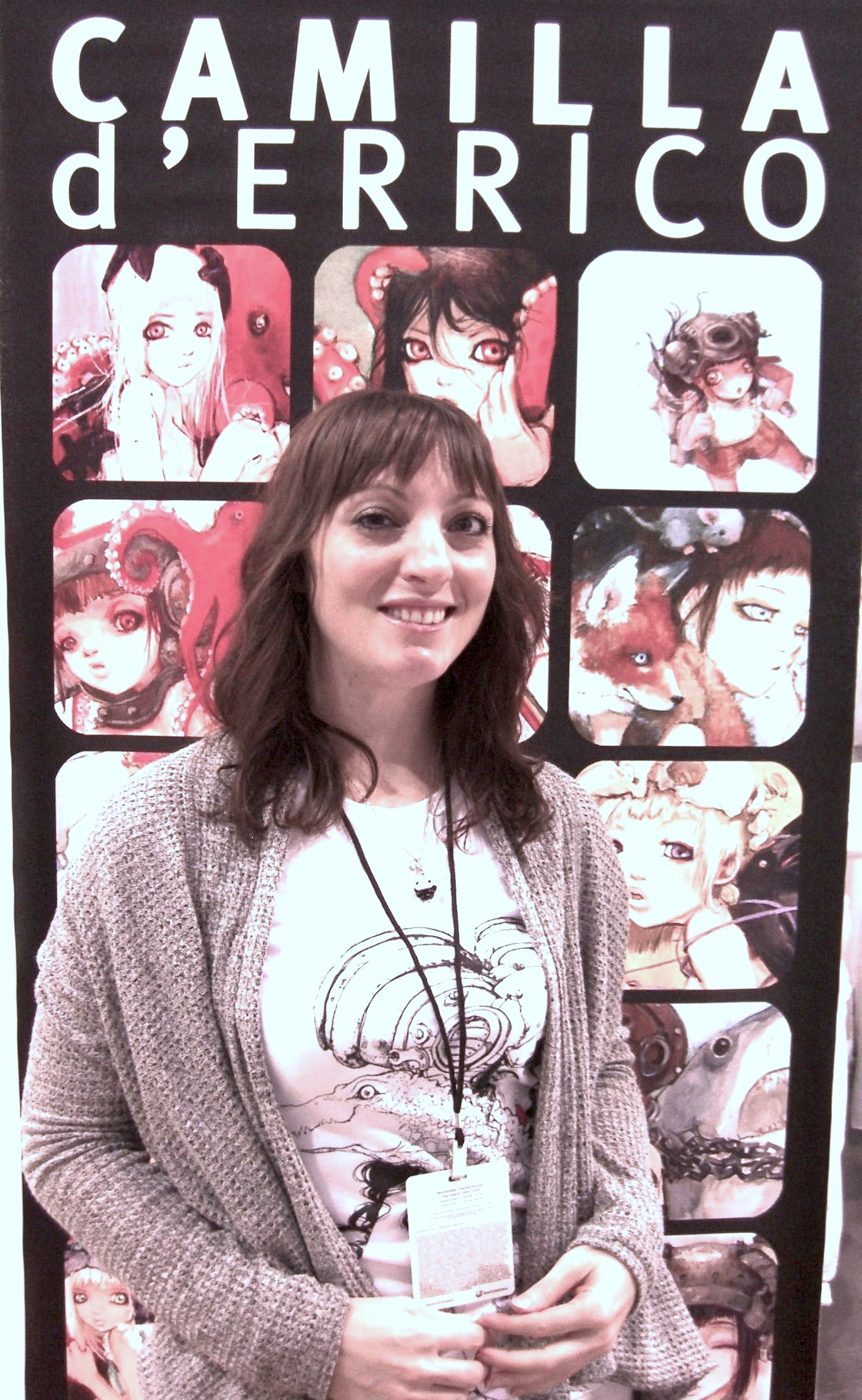 Comic book creator Camilla d'Errico, at the New York Comic Convention in Manhattan, October 10, 2010. Photo by Luigi Novi. This photo may be used, modified and published for any purpose, only if a easily visible credit to the photographer is placed near the photo in each instance in which it is used. (See licensing information below.) Publication of this photo without this proper attribution constitute copyright infringement. For more information on my photos, you can contact me here.